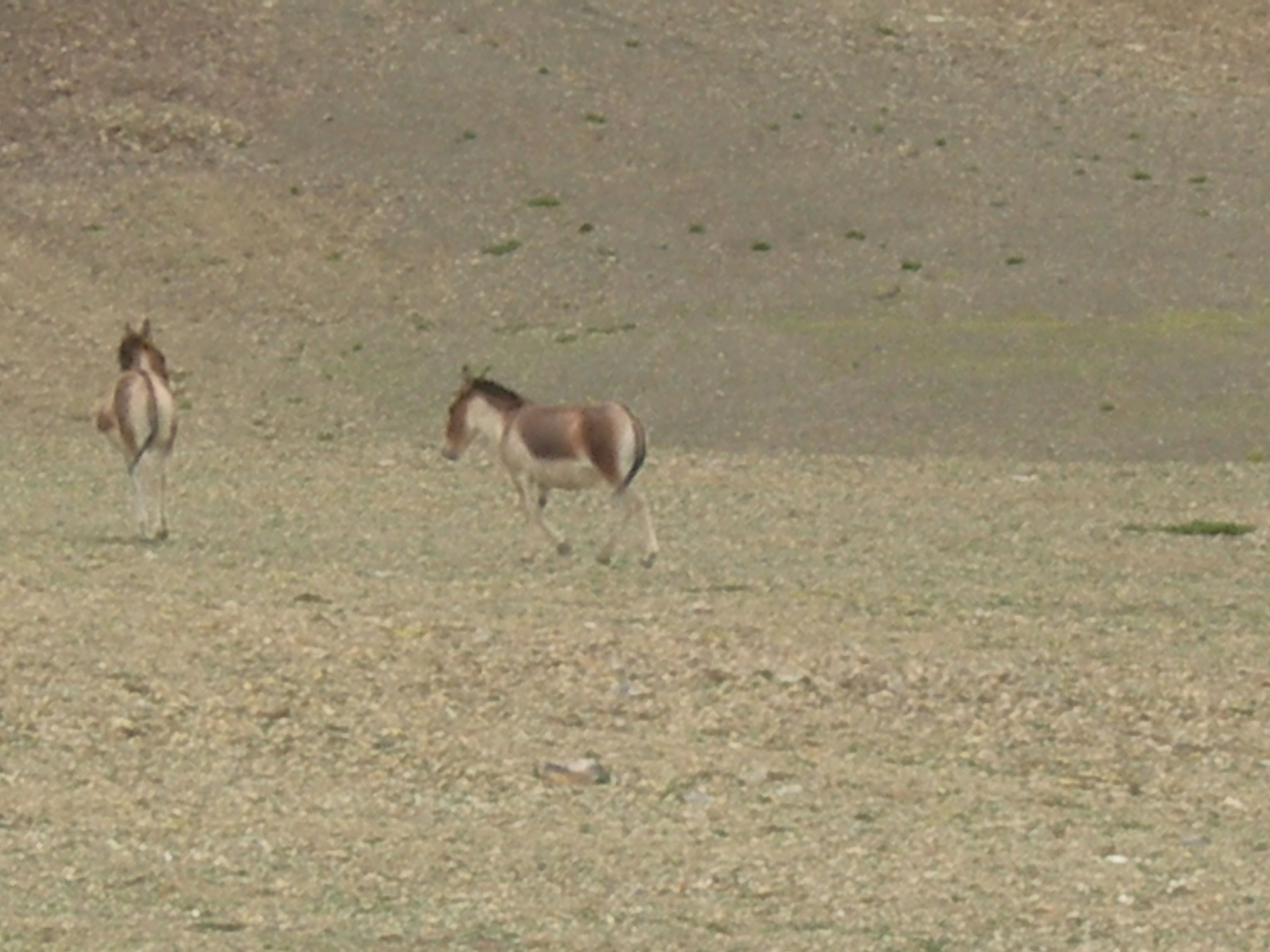 A couple of kiang horses in Ladakh, India